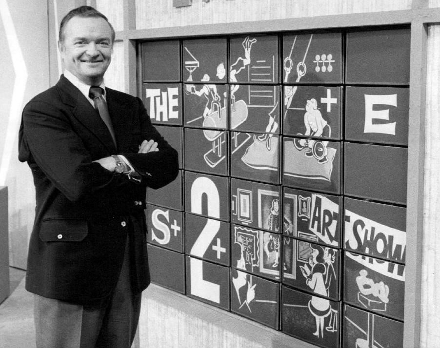 Publicity photo of host Bob Clayton and the game board of the television program Concentration. The game was played by contestants making matches to uncover portions of the board which displayed a rebus which, when solved, won the round. The rebus in the photo is "The Jimmy Stewart Show".